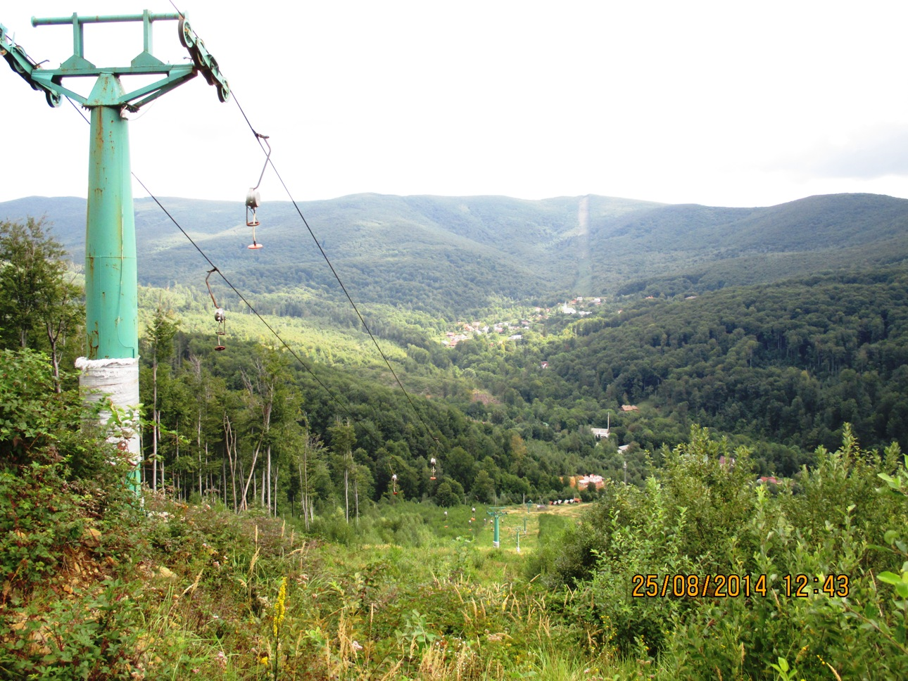 Village Syniak lift